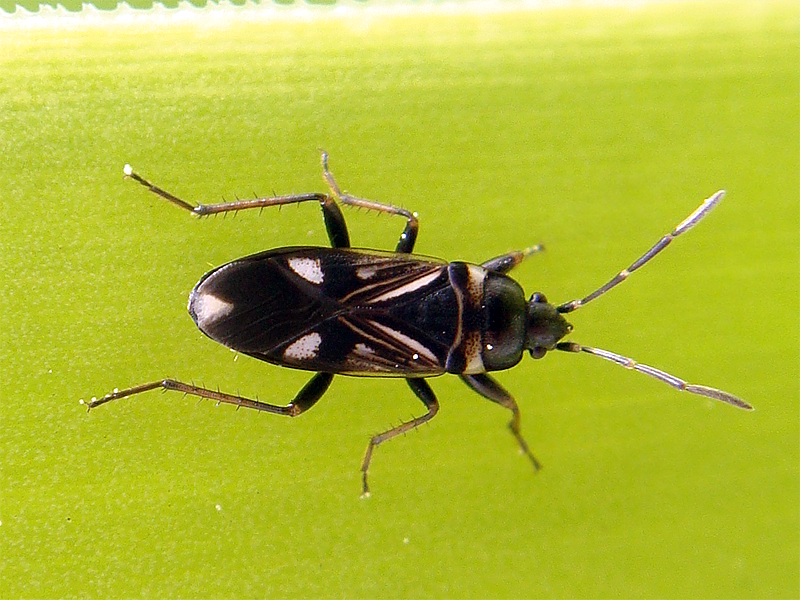 Raglius alboacuminatus, Europe, Portugal, Leiria, Ansião